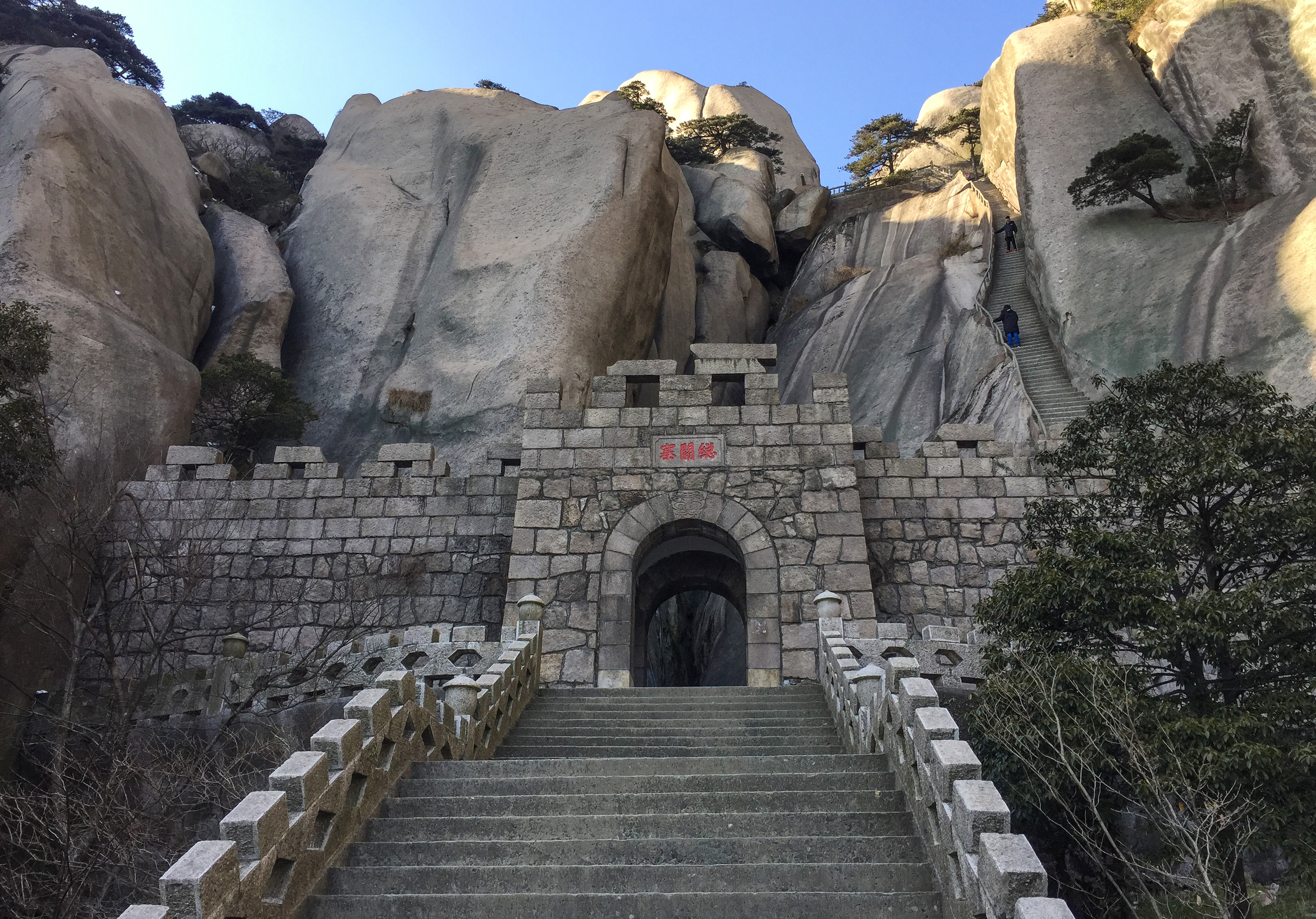 Note the steep stairs.